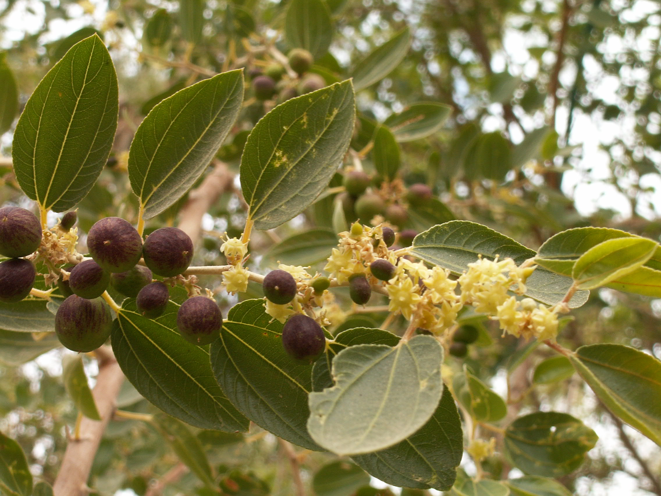 Ziziphus spinachristi flower and tree photographed in the Arava area in Israel.